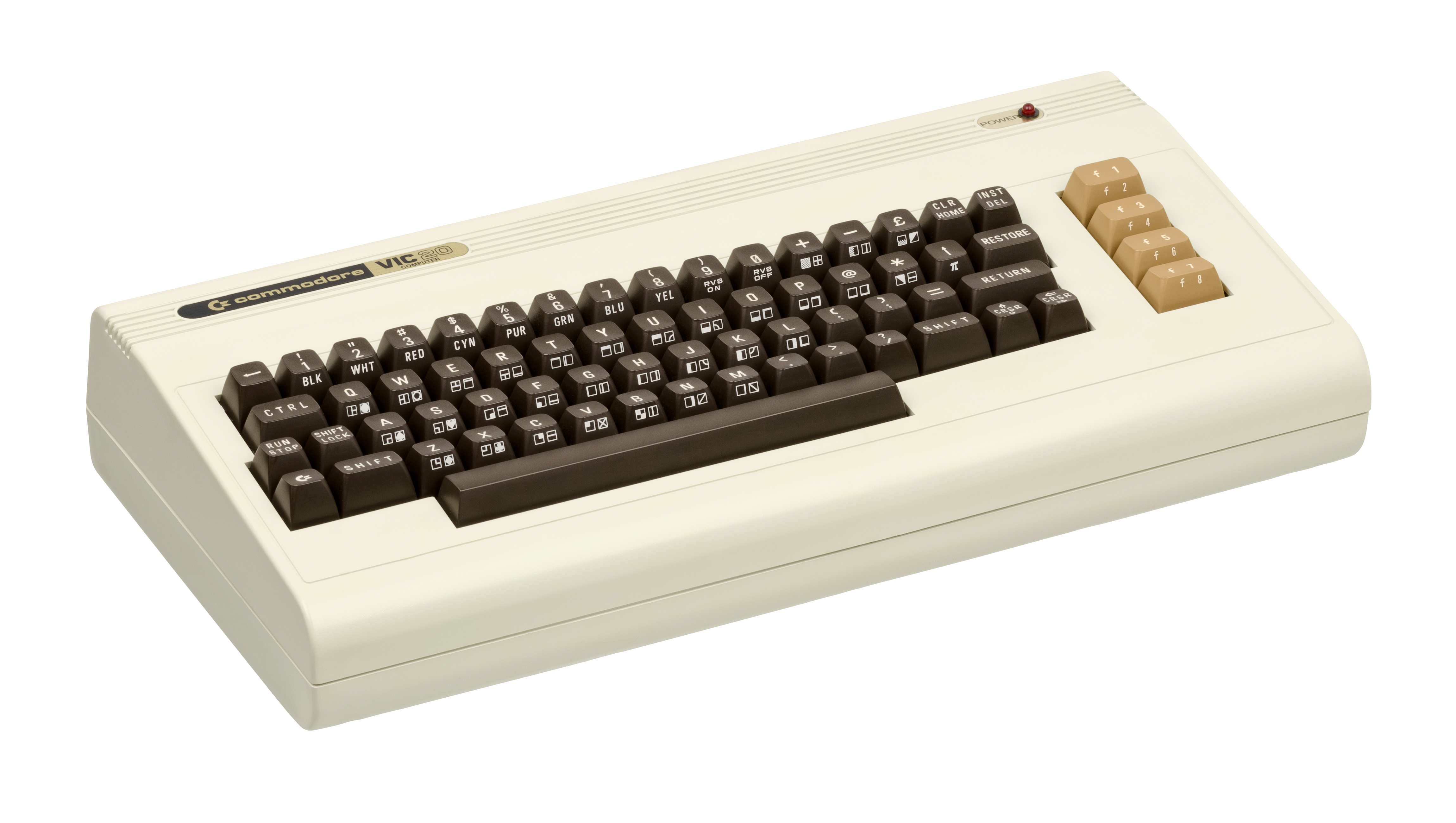 The Commodore VIC-20, an 8-bit computer released in 1981. A popular and inexpensive computer, it is the precursor to the immensely successful Commodore 64, which shares the same aesthetic as the VIC-20.